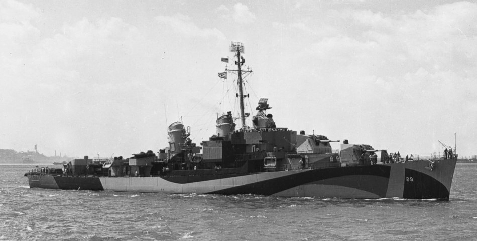 The U.S. navy destroyer-minelayer USS Henry A. Wiley (DM-29) upon delivery, Bethlehem Steel Co., Staten Island, New York (USA), on 30 August 1944.